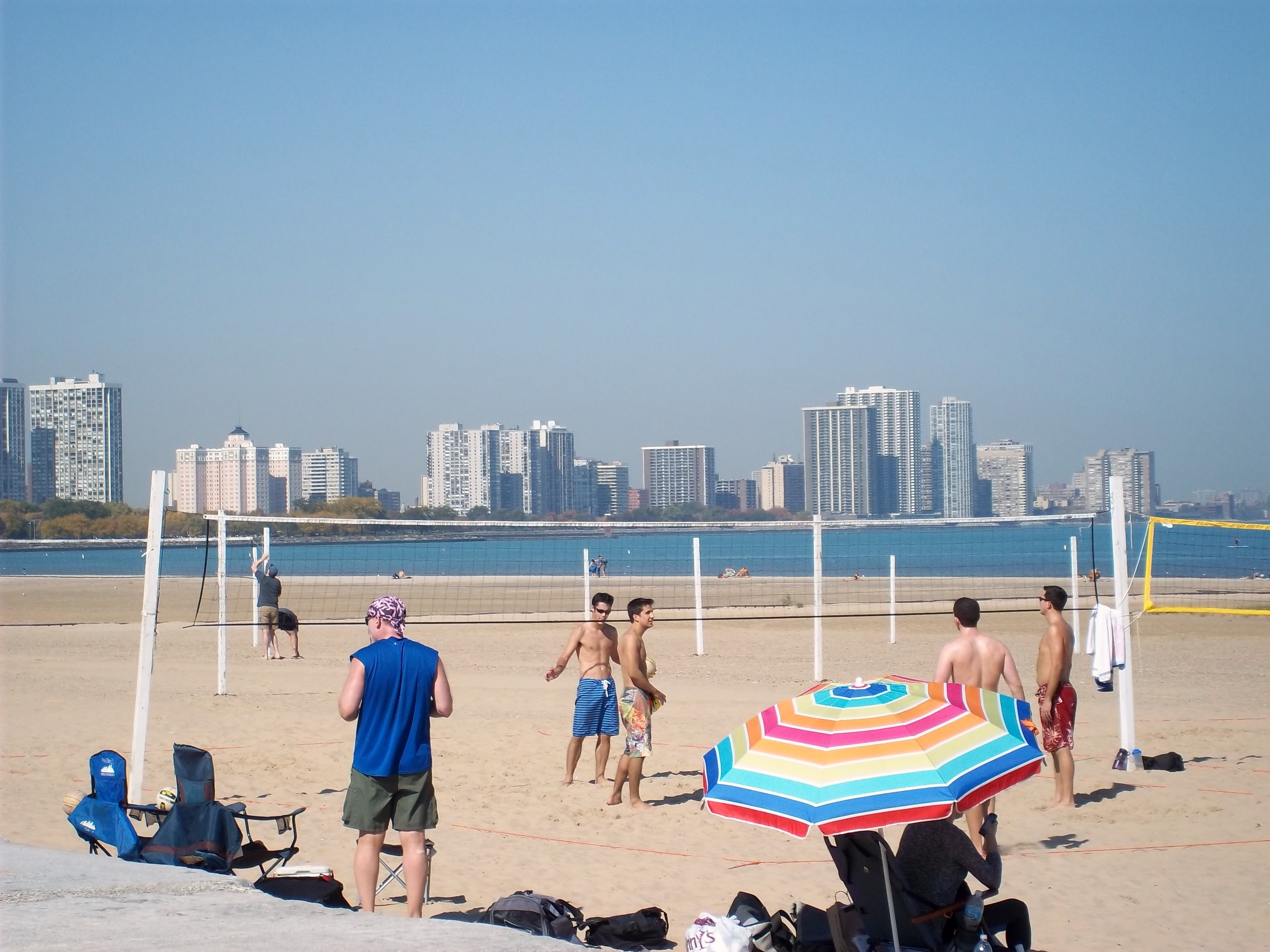 Montrose Beach Lincoln Park Chicago